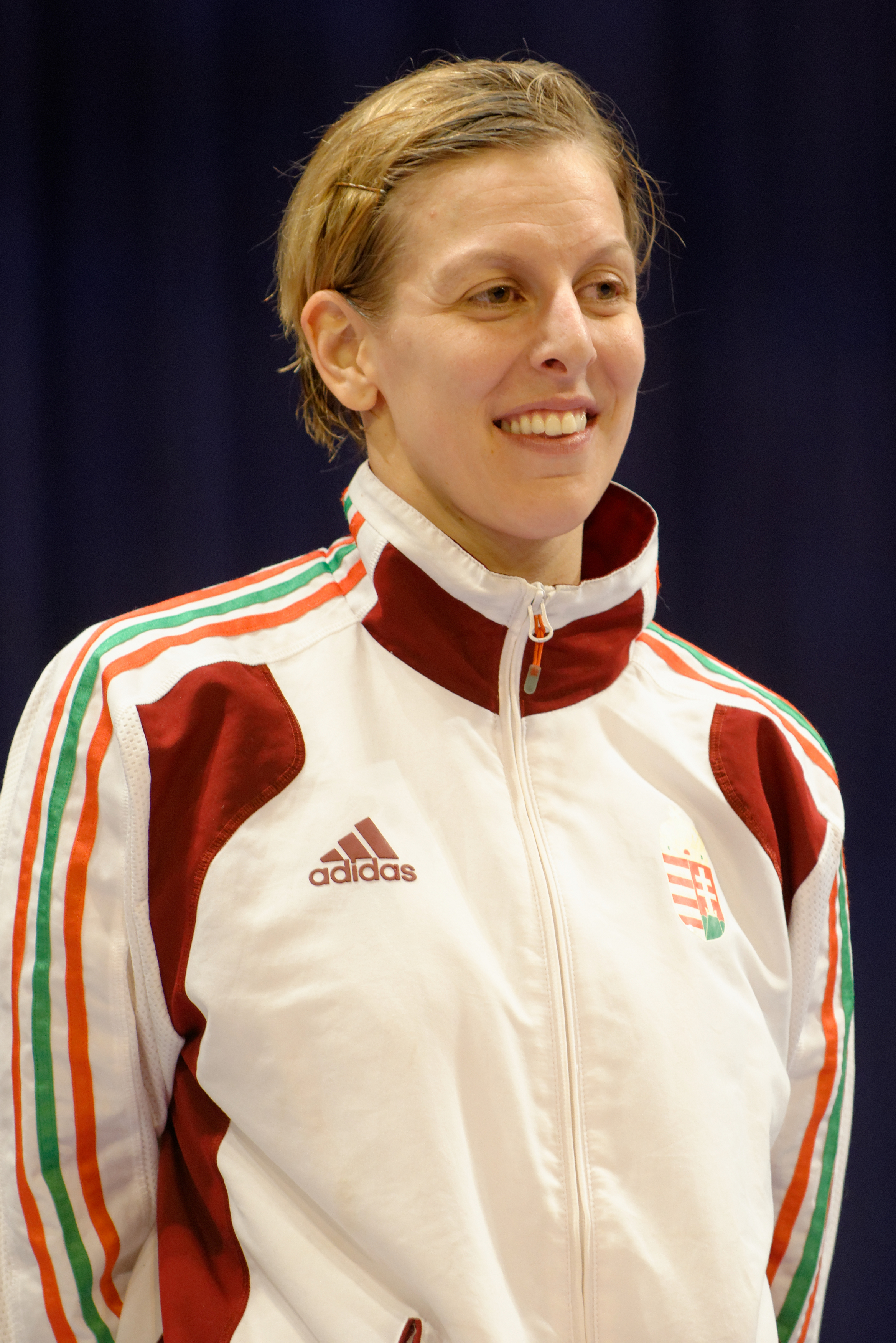 Emese Szász at the trophy presentation–Challenge international de Saint-Maur 2013, women's épée World Cup tournament.